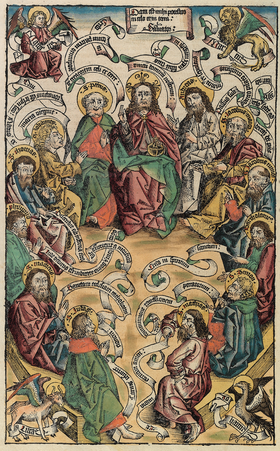 This is a part of a scan of an historical document: Title: Schedelsche Weltchronik or Nuremberg Chronicle